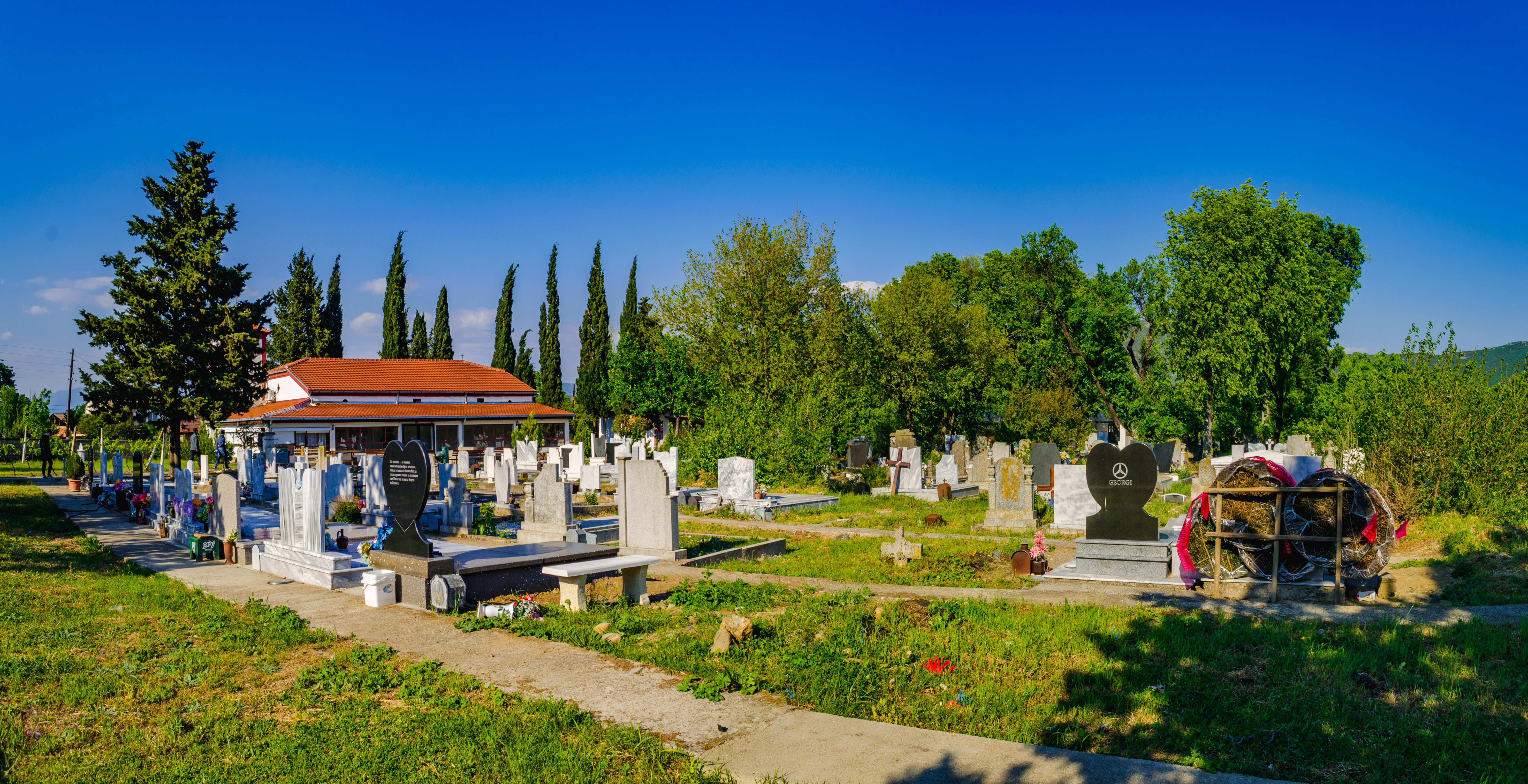 St. Petka Church in the village Prdejci with graveyards